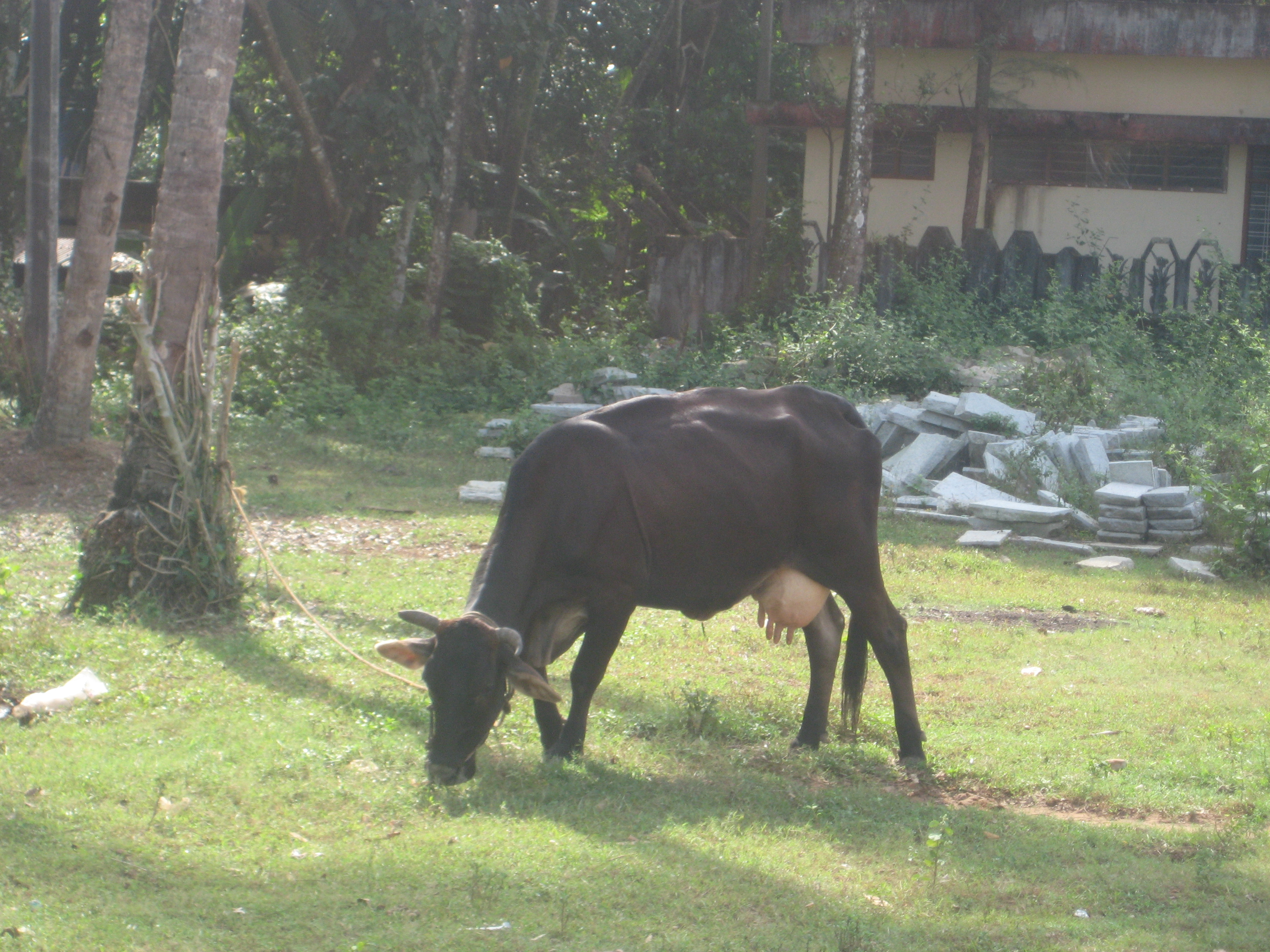 Cow, a domestic animal